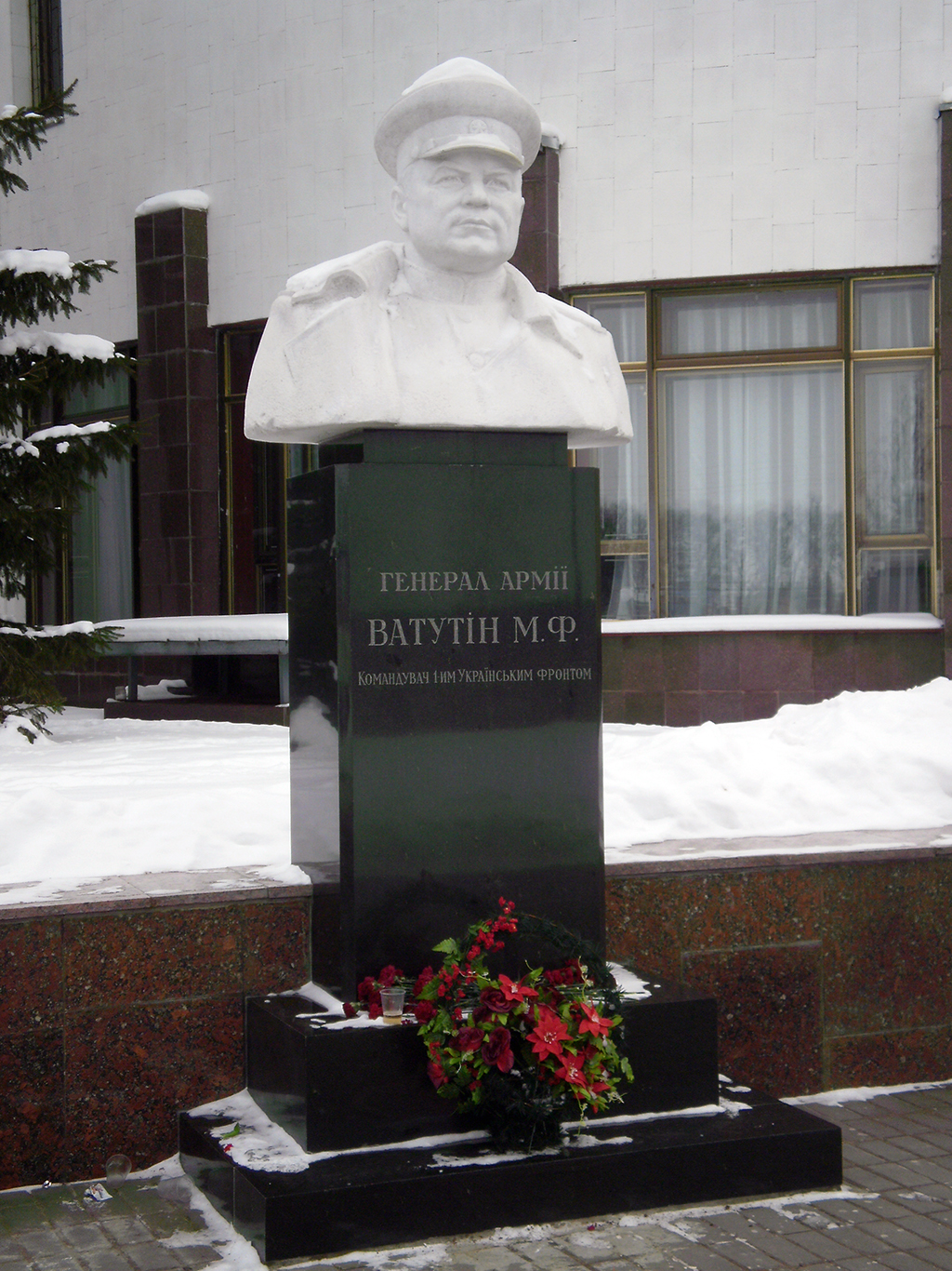 музей освобождения Киева, с. Новые Петровцы